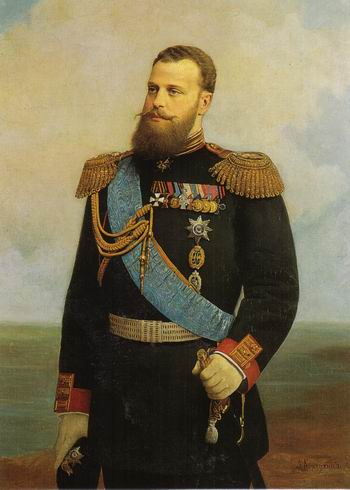 Alexey Korzukhin (1835-1894) Portrait of Grand Duke Alexei Alexandrovich